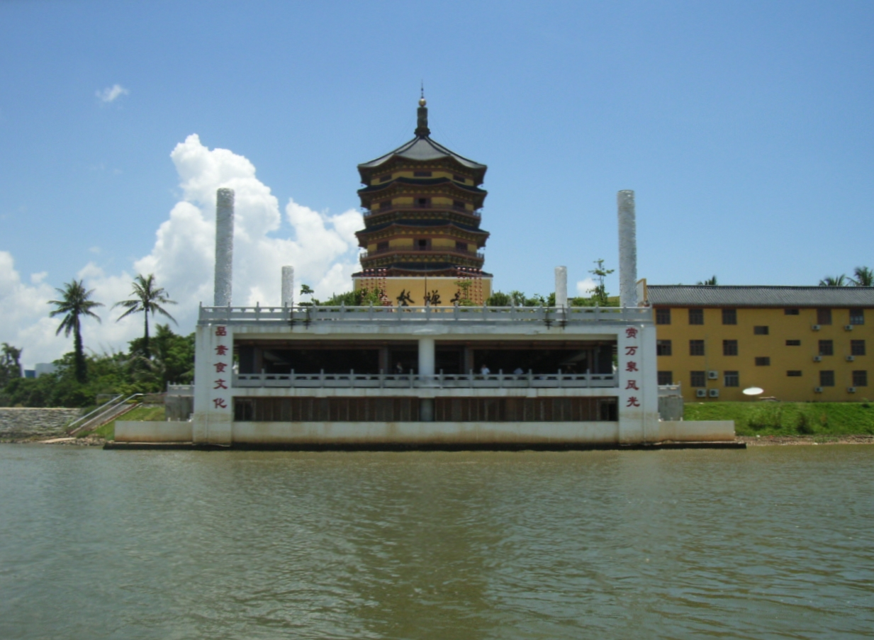 Boao Aquapolis, Qionghai County, Hainan Island, China User:HNPIX